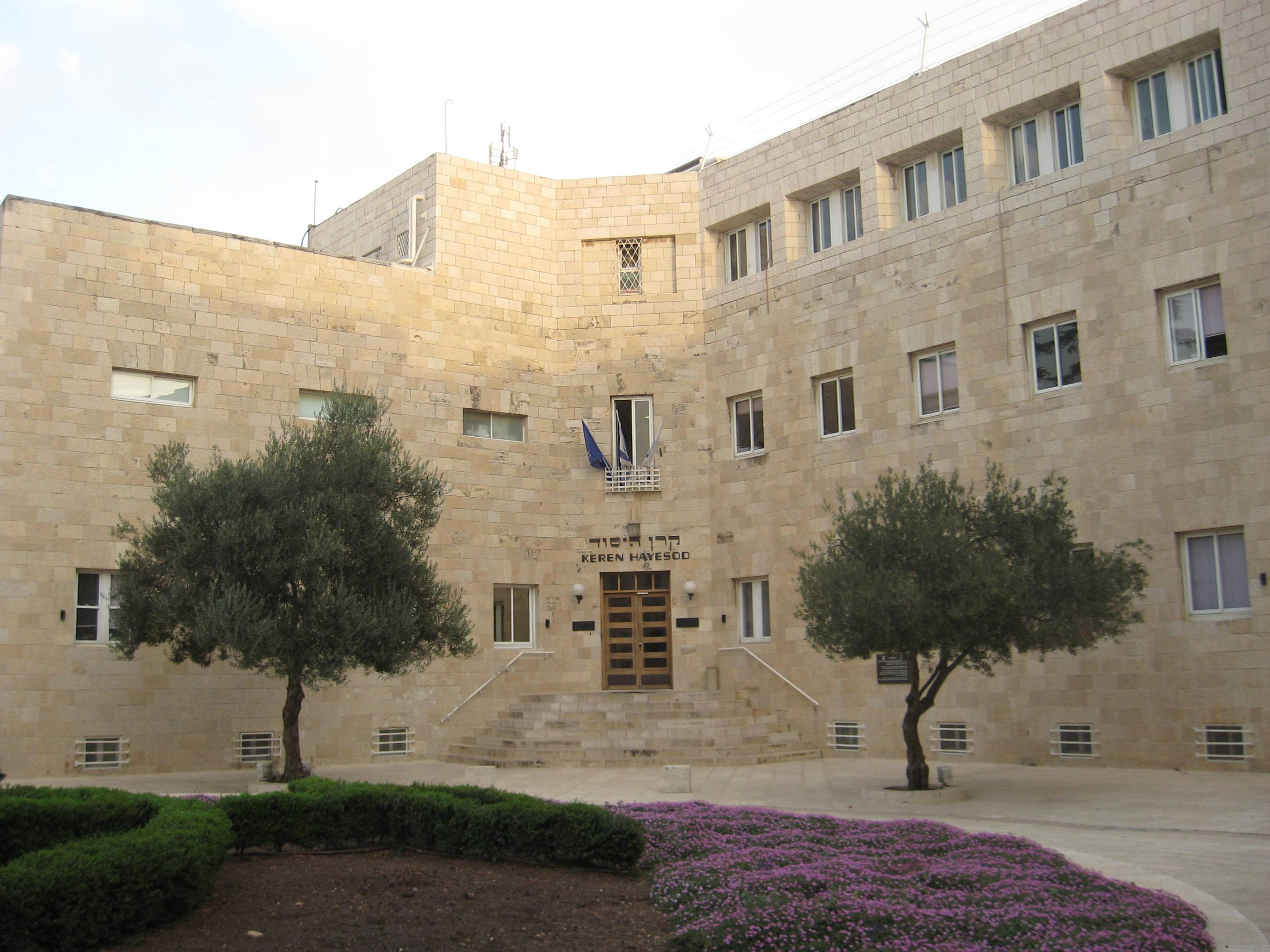 Keren Hayesod Office, wing of the National Institutions House, Jerusalem